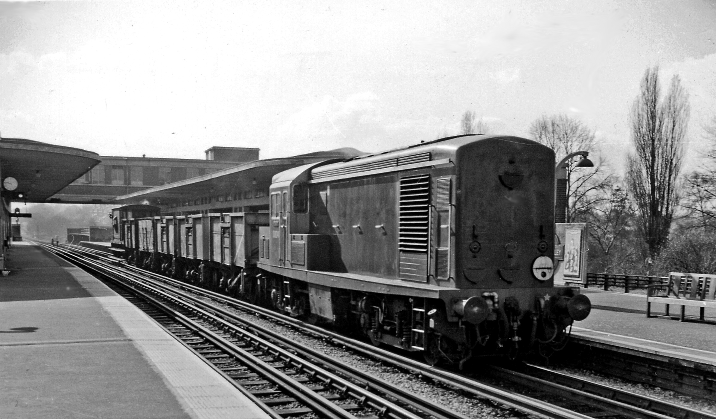 East Finchley Station, with Diesel on local goods. View SE, towards Finsbury Park on BR(ER) surface line via Highgate, towards Central London and Morden on LT Northern Line (High Barnet branch). Although Diesels were used, freight was still being handled from Highbury Vale to High Barnet (until 10/62), Mill Hil and Edgware (until 9/64). The locomotive is a BTH/Paxman Type 1 800hp Bo-Bo, introduced in 1957; this is No. D8241 built in 2/61. The Class were surplus to requirements by the late 1960's and were scrapped.